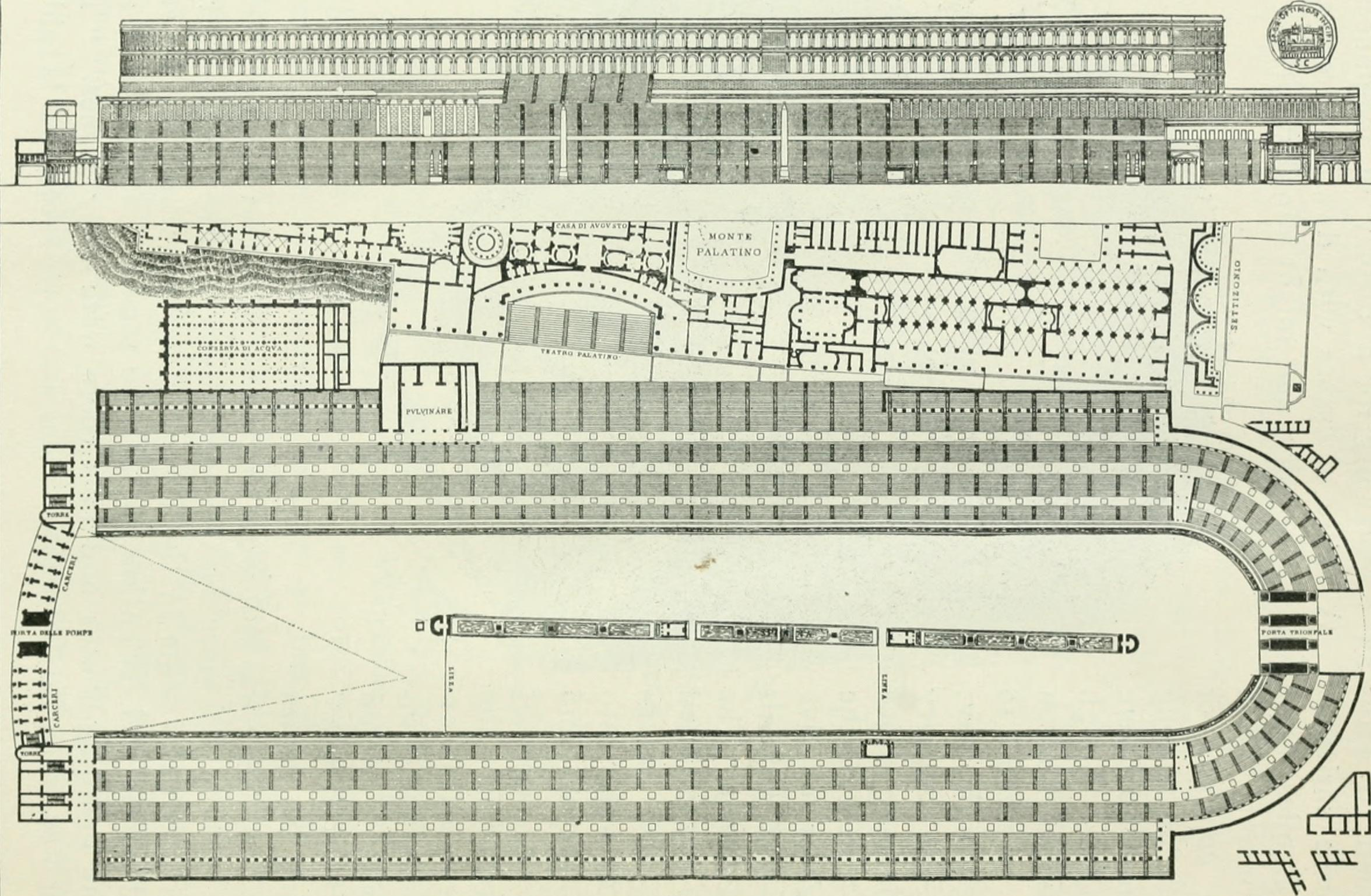 Title: A day in ancient Rome; being a revision of Lohr's "Aus dem alten Rom", with numerous illustrations, by Edgar S. Shumway .. Year: 1885 (1880s) Authors: Lohr, Fr Shumway, Edgar Solomon, ed. (and) tr Subjects: Rome -- Antiquities Rome (city) -- Description and travel Publisher: New York, Chautauqua press Text Appearing Before Image: VESPASIAN. 70 THE CIRCUS MAXIMUS. Text Appearing After Image: U THE CIRCUS. 71 have been first instituted by Tarquinius Priscus, after his conquestof the Latin town of Apiolce. It was a vast oblong, ending in asemi-circle, and surrounded by three rows of seats, termed col-lectively cavea. In the centre of the area was the low wall calledthe spina, at each end of which were the metae, or goals. Betweenthe metae were columns supporting the ova, egg-shaped balls, anddelphlnae, or dolphins, each seven in number, one of which wasput up for each circuit made in the race. At the extremity of thecircus were the stalls for the horses and chariots called carcercs.At one time this circus was capable of containing 385,000persons. It must have had a peculiar charm for a Roman towatch, in eager suspense, the different parties adorned with theirrespective colors, and to be able to follow the green, blue, red, andwhite charioteers in their headlong course. For this reason Septimius Severus built himself, on this side ofthe palace, a spacious lodge, from which h